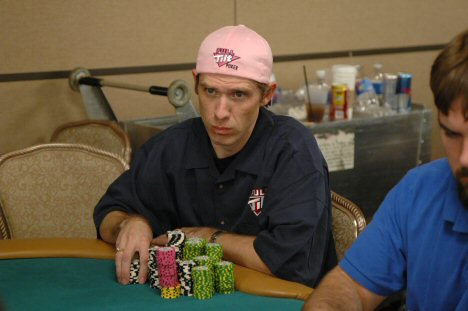 Layne Flack in 2005 World Series of Poker (WSOP) at the Rio, Las Vegas